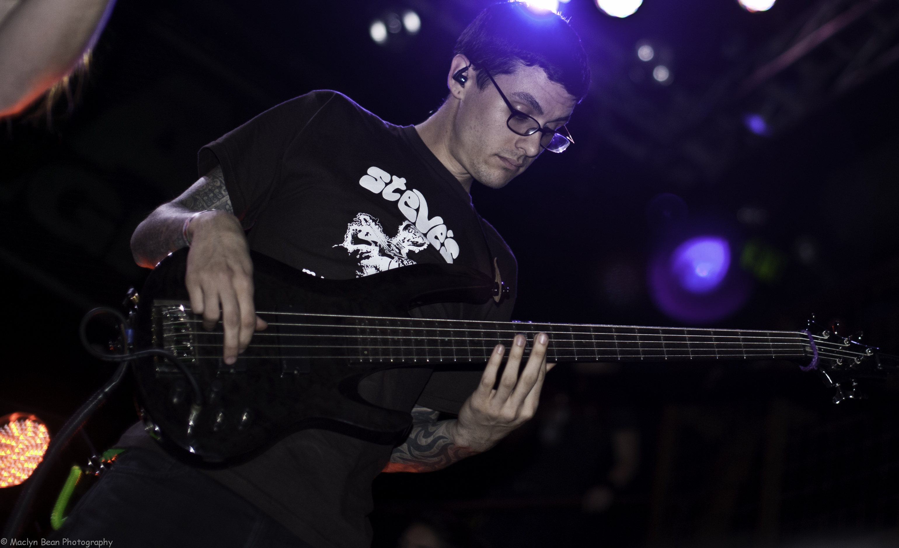 Evan Brewer of The Faceless @ DNA Lounge